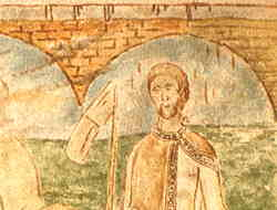 Mojmír II.